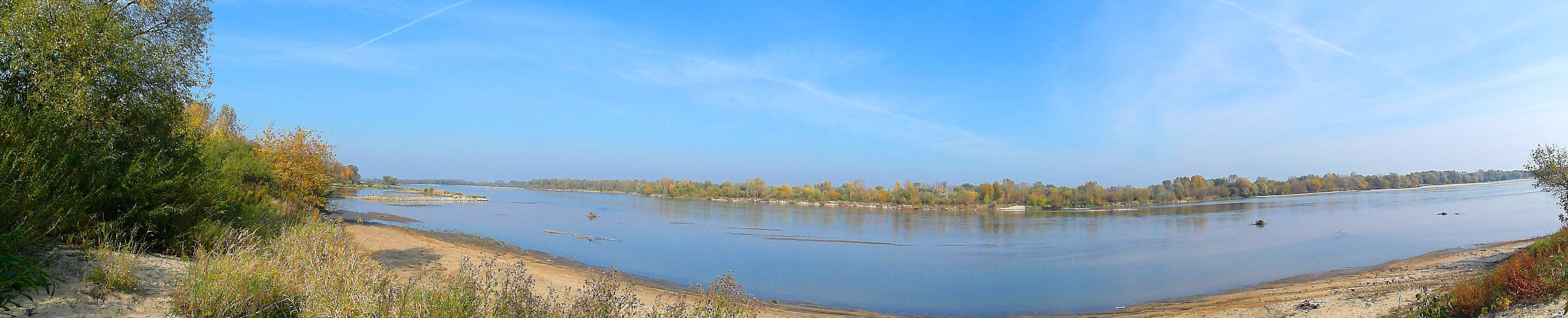 Vistula near Pilica mouth